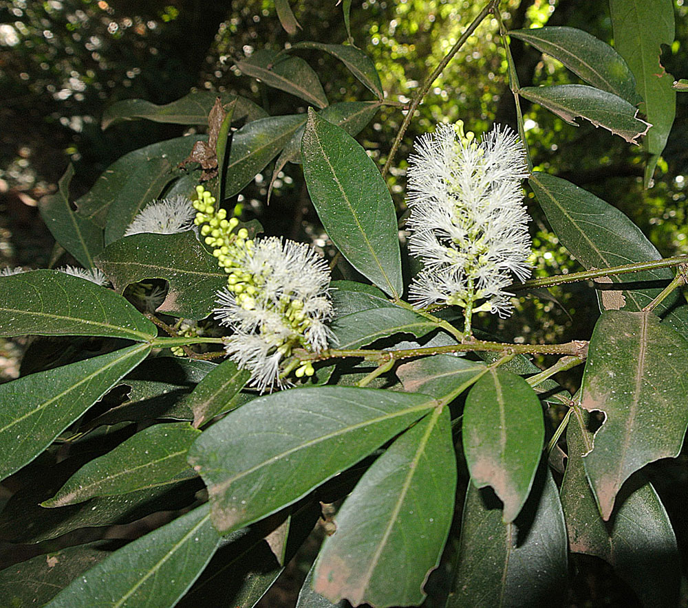 One of the more distinctive species of its genus, and found through much of the Neotropics.